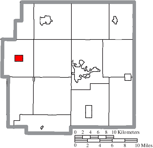 Map of the municipal and township boundaries of Wyandot County, Ohio, United States, as of the 2000 census, with the location of the village of Wharton highlighted. Township borders are shown only in unincorporated areas in order to differentiate incorporated and unincorporated areas more clearly.